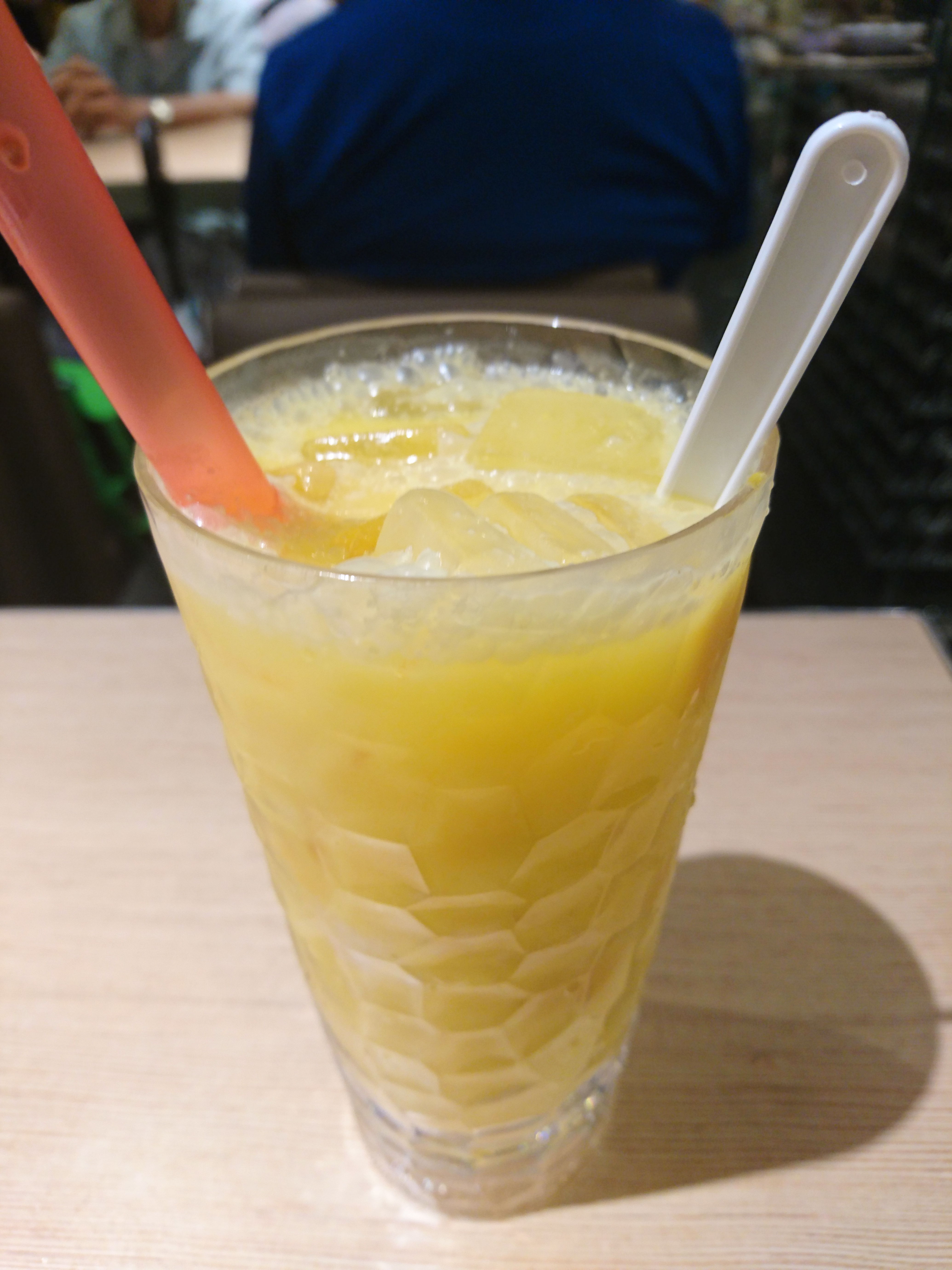 Mango Pomelo Sago Drink